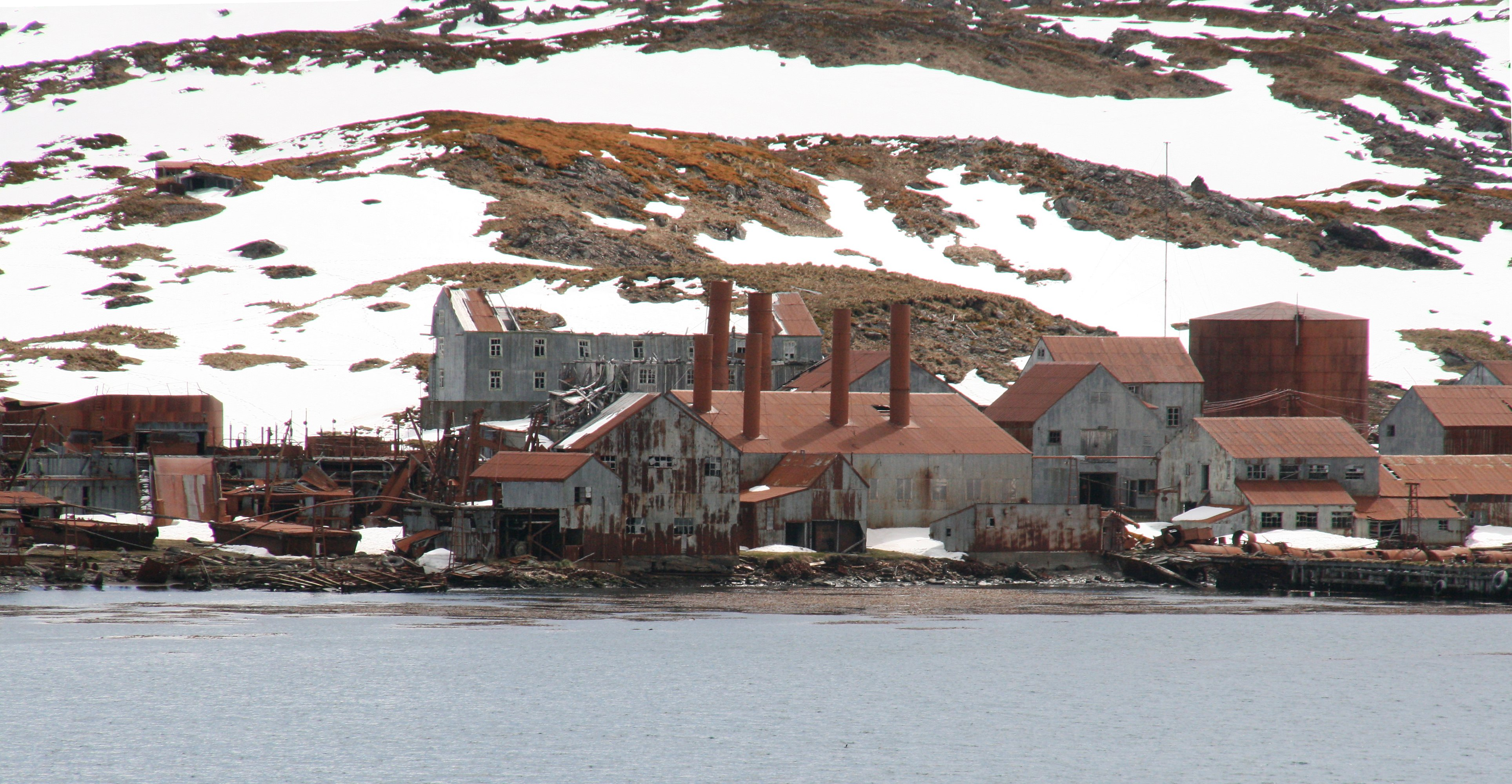 Abandoned whaling station at Leith Harbour, South Georgia.